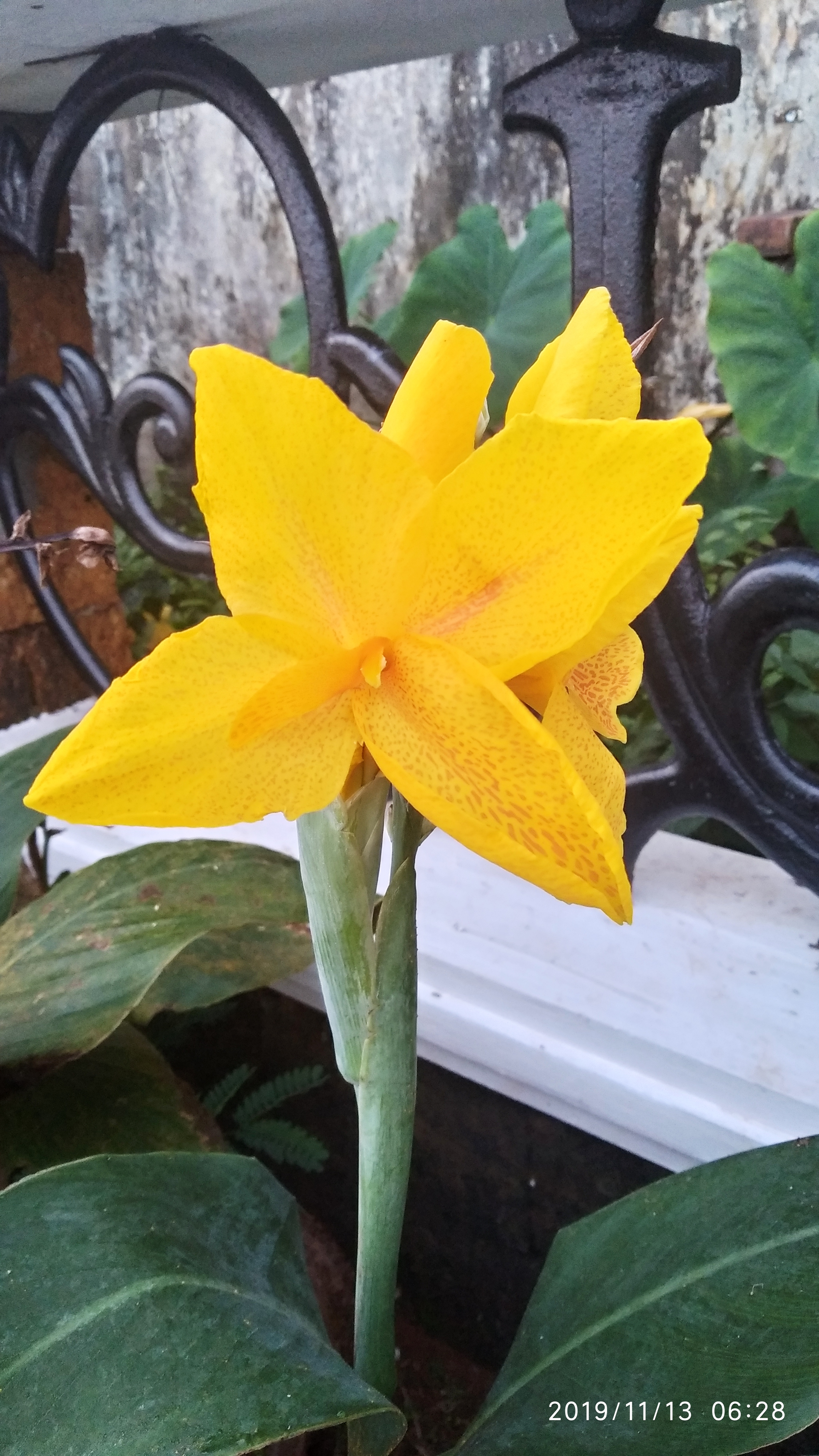 Canna indica is a perennial growing to between 0.5 m and 2.5 m, depending on the variety. It is hardy to zone 10 and is frost tender. The flowers are hermaphrodite.It is effective for the removal of high organic load, color and chlorinated organic compounds from paper mill wastewater